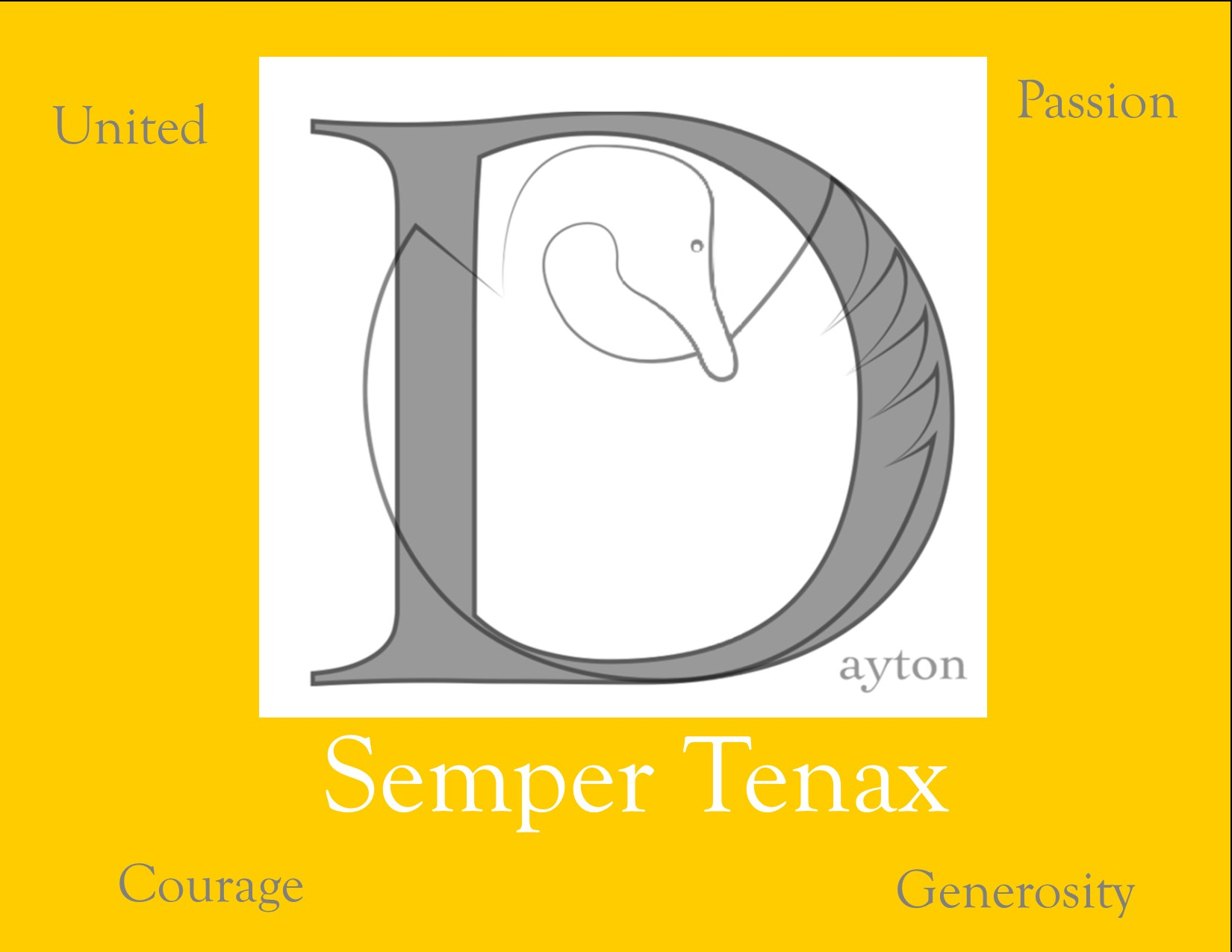 house